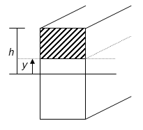 First Moment of Area for calculation of shear stress